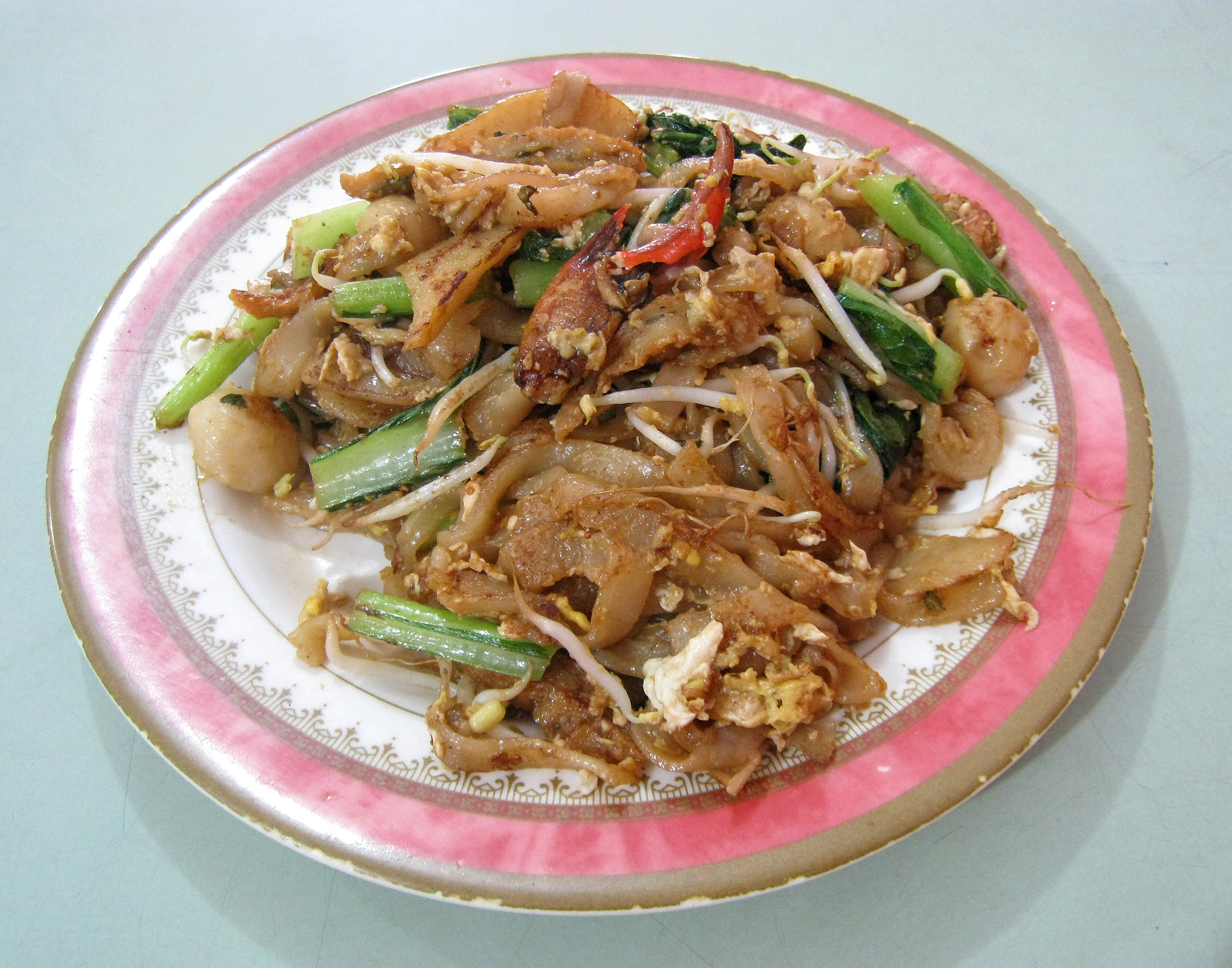 Fried flat noodle (similar with char kway teow) with crab. Chinese Indonesian dish, Jalan Pangeran Jayakarta, Jakarta, Indonesia.